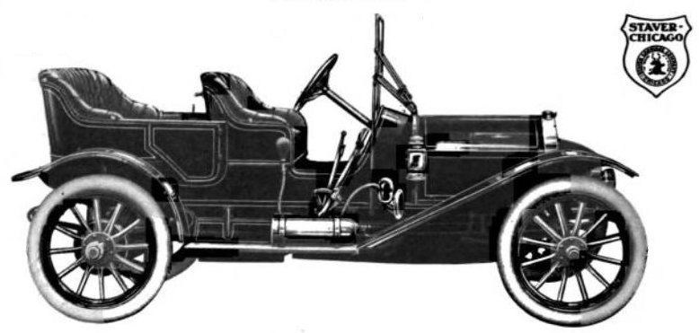 Image is of a 1911 Staver-Chicago from an advertisement in Motor Age from the Google books collection: Title Motor age, Volume 18 Publisher Class Journal Co., 1910 Original from the New York Public Library Digitized Jun 24, 2006